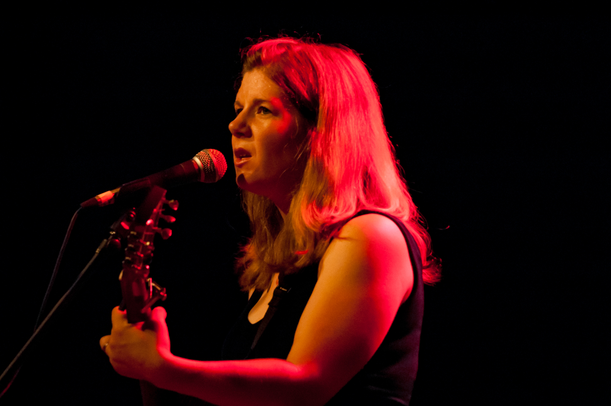 Dar Williams performing